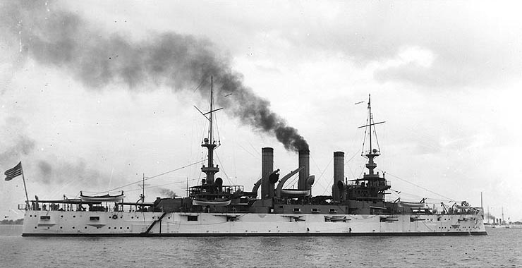 The USS Vermont BB - 20, Public domain photo from history.navy.mil